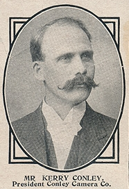 Kerry Conley, President Conley Camera Co.